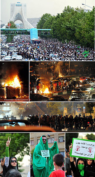 mixed